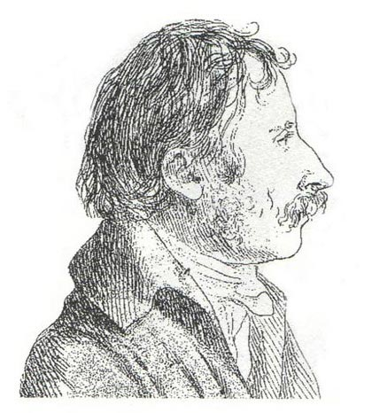 Joseph Sulima Sulkowski